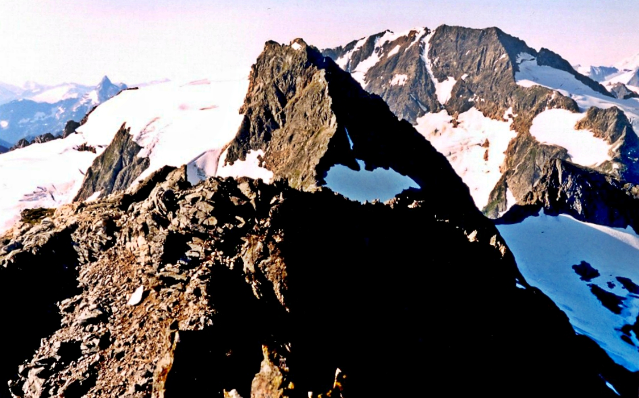 Hurry-up Peak seen from Magic Mountain summit. Annotations for S Glacier, Spider Mountain, Arts Knoll, and Agnes Mountain. Glacier Peak Wilderness of Washington state.